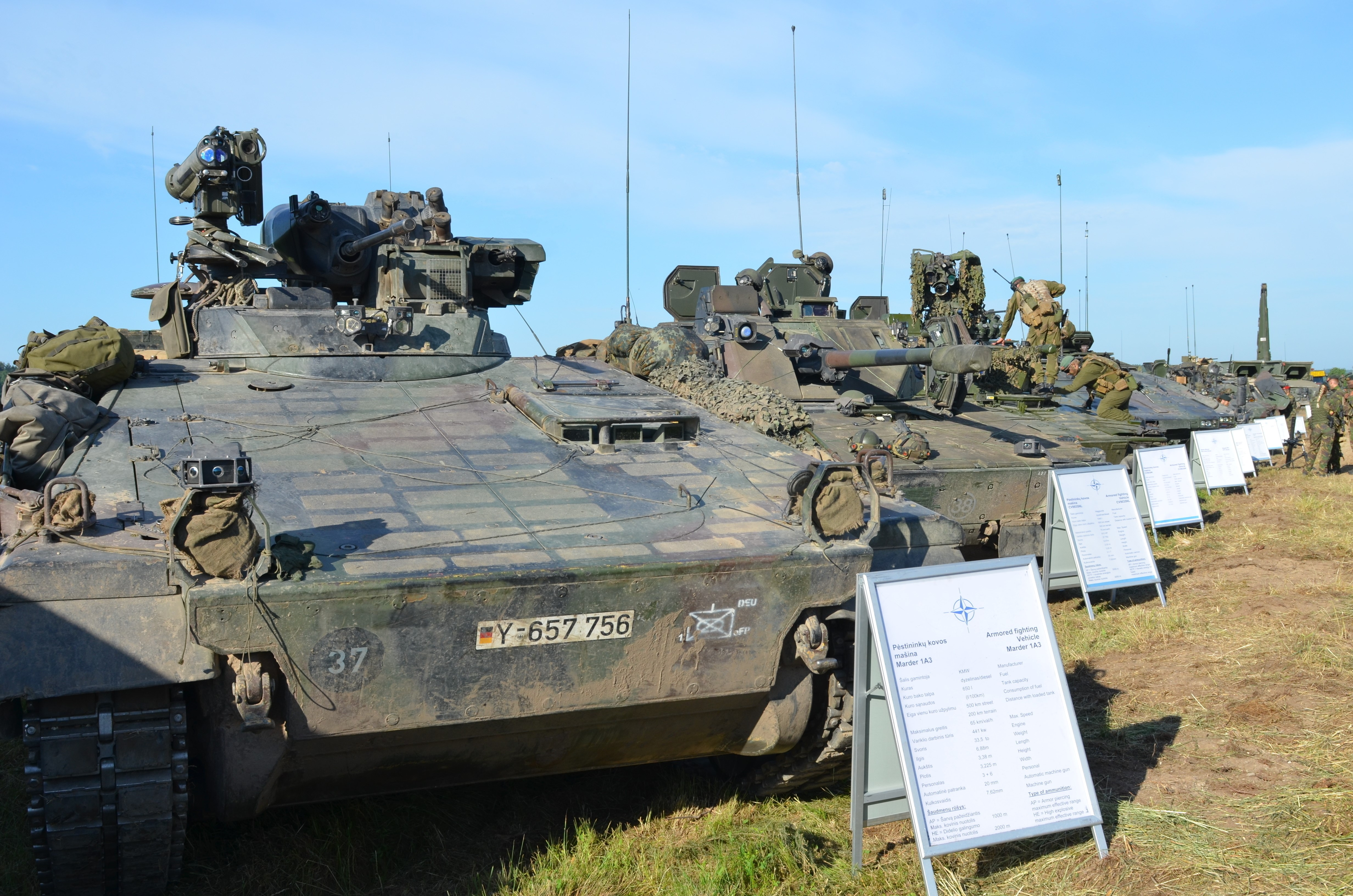 Prior to one of the largest combined exercises in Lithuania, the Suwalki Gap River Crossing, a display along the road showcases military vehicles from NATO's Enhanced Forward Presence Battle Groups, during Exercise Iron Wolf, a component of Saber Strike 17, near Rukla, Lithuania, June 20. Battle Groups Poland and Lithuania conducted operations to test their ability to mobilize quickly across the river, overcoming terrain.